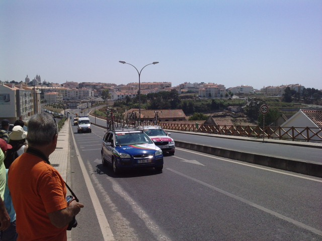 Portuguese Cycling National Team car at Volta a Portugal 2010